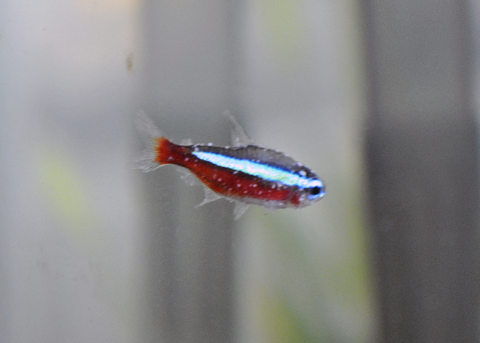 Cardinal tetra (Paracheirodon axelrodi)infected by Ichthyophtiriosis.